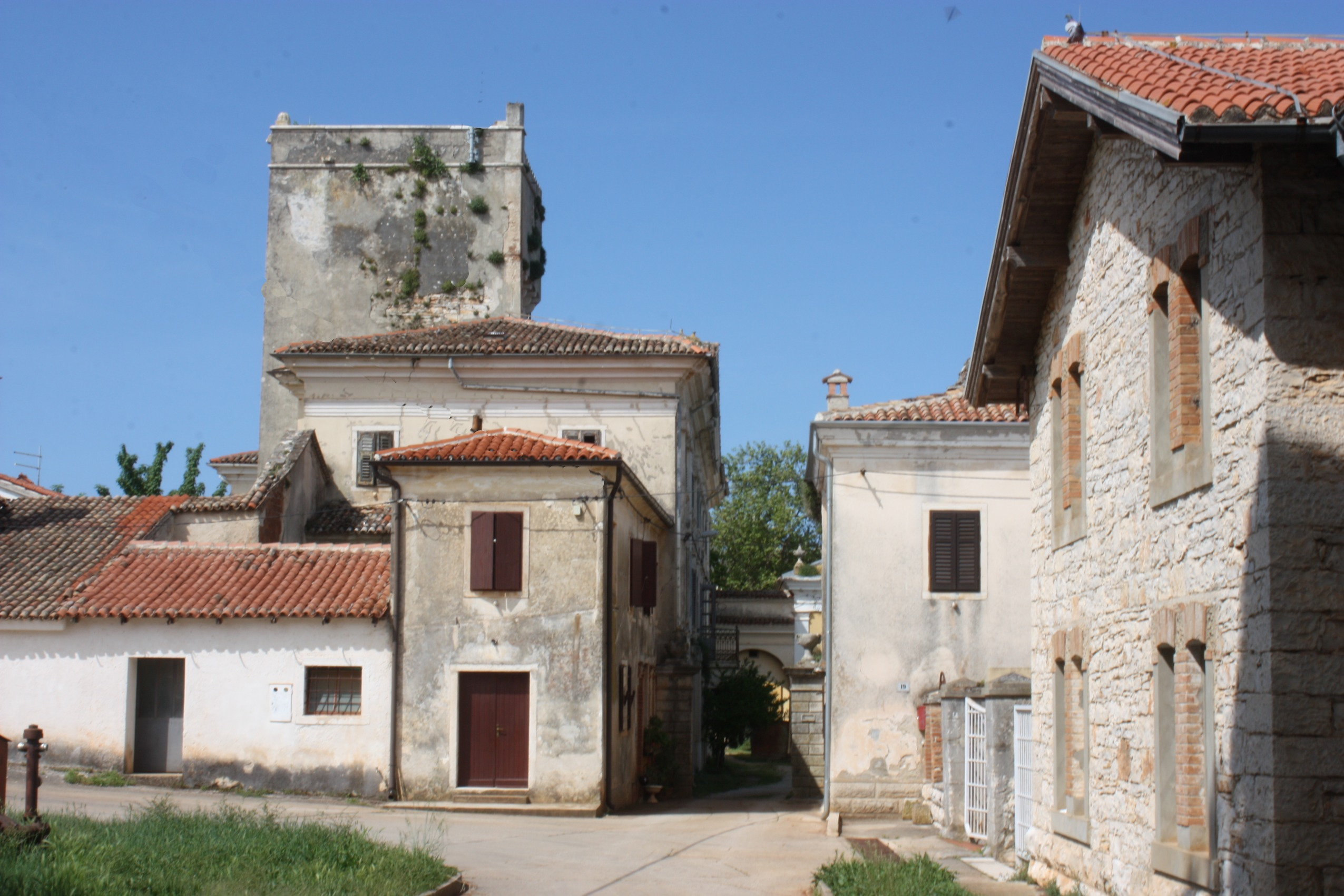 Dajla (Novigrad}, the former monastery